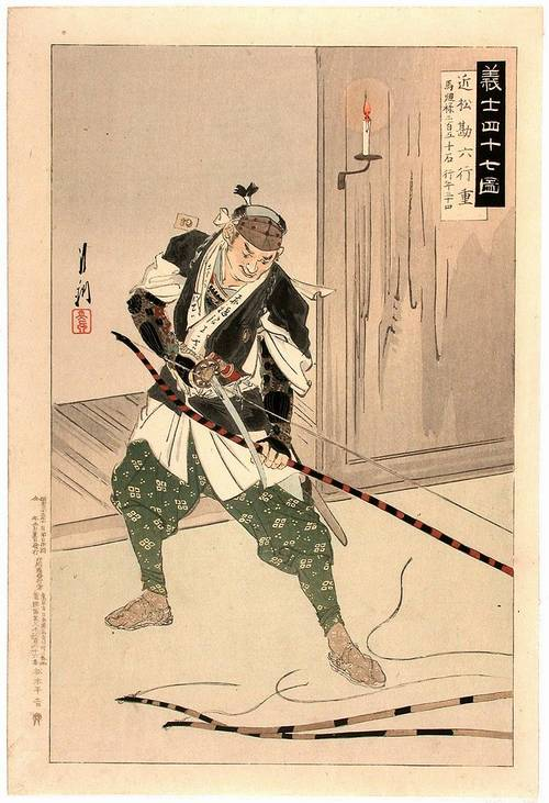 Ronin are masterless samurai. Chushingura is the true story of 47 samurai who became masterless in 1701, after their lord had been forced to commit ritual suicide (seppuku) for assaulting a court official who had insulted him. They avenged him by killing the court official after patiently planning for over a year. They were themselves then forced to commit seppuku.